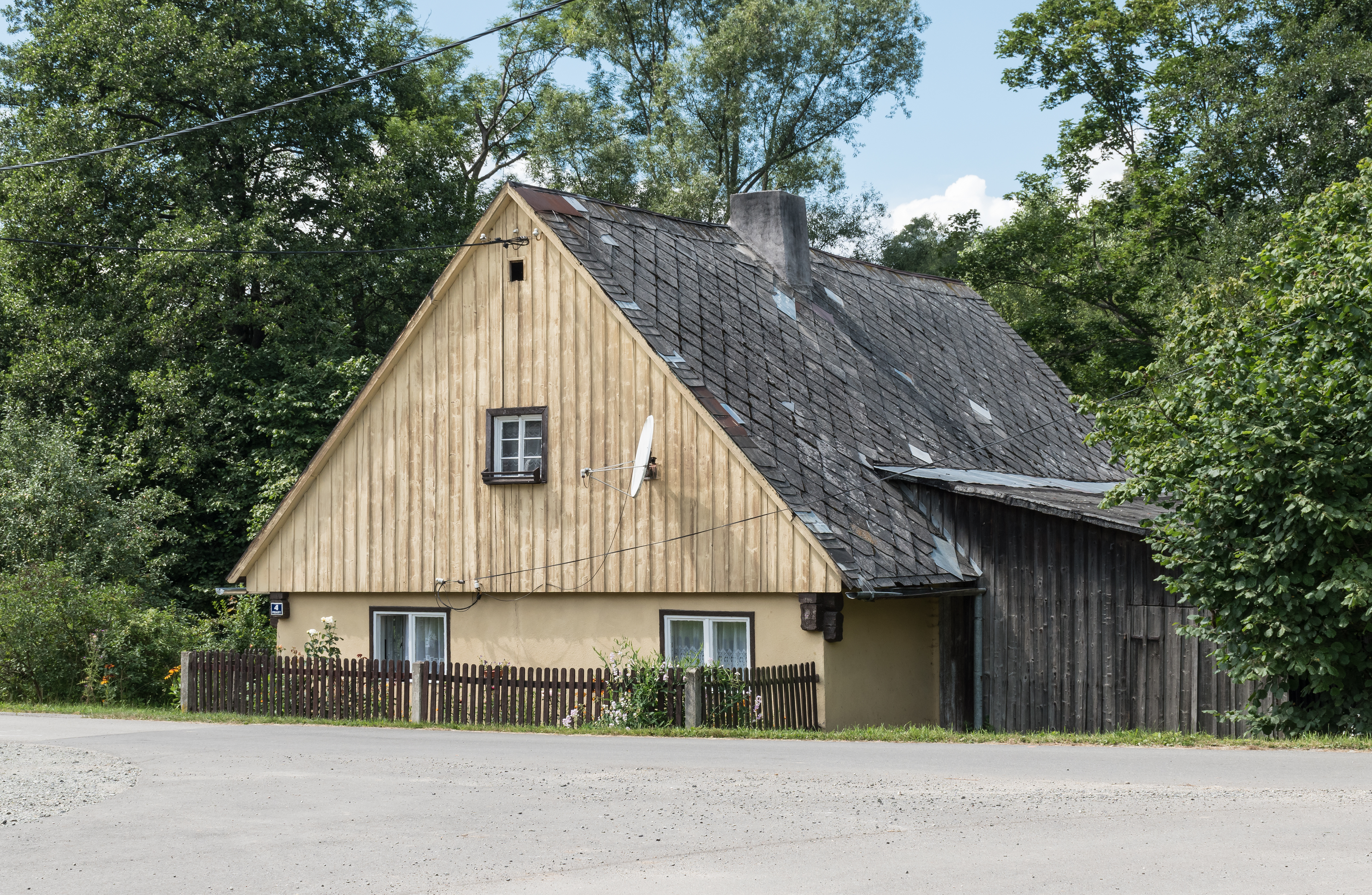 House No. 4 in Pisary